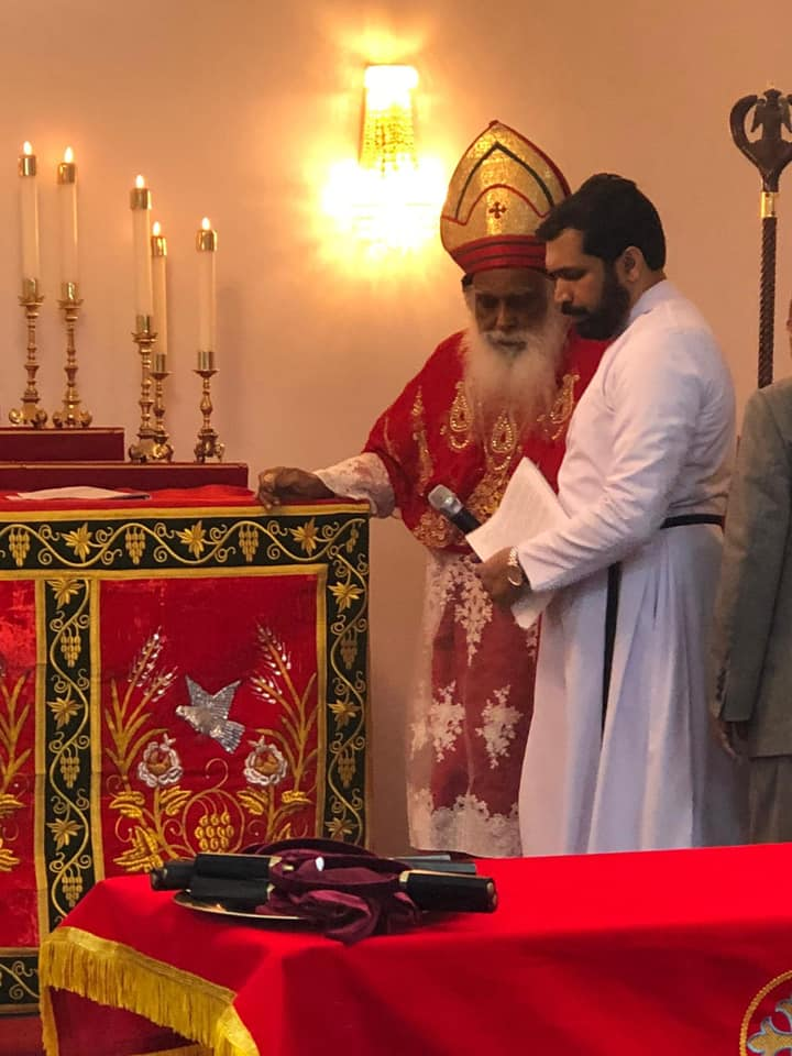 Bishops in the Mar Thoma Church upholds the Malankara Tradition of the Church.